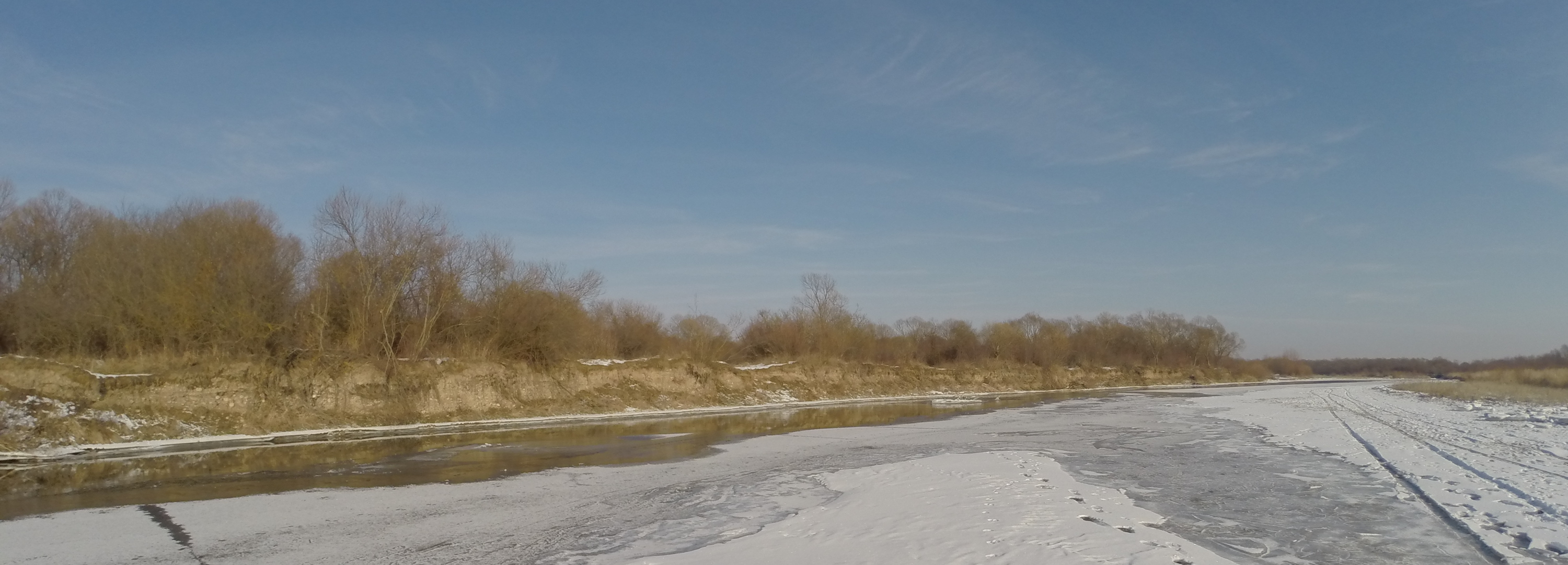 The half-frozen river Bystrytsia Solotvynska (Bystrytsia of Solotvyn) immediately northwest of the village of Drahomyrchany, Tysmenytsia rayon, Ivano-Frankivsk oblast, western Ukraine. Viewing direction is northeast (downstream).